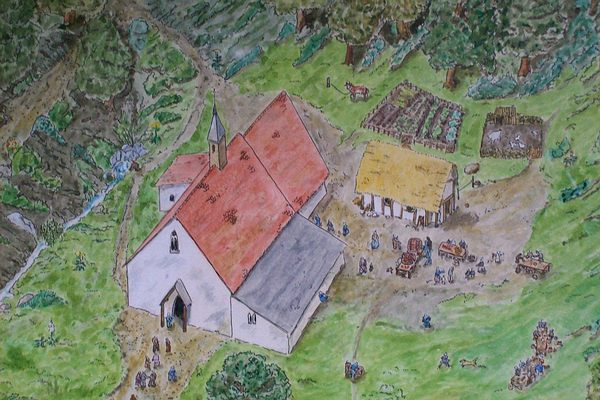 Stylised illustration of the chapel Zur Not Gottes in Bensheim-Auerbach, Hessen, Germany